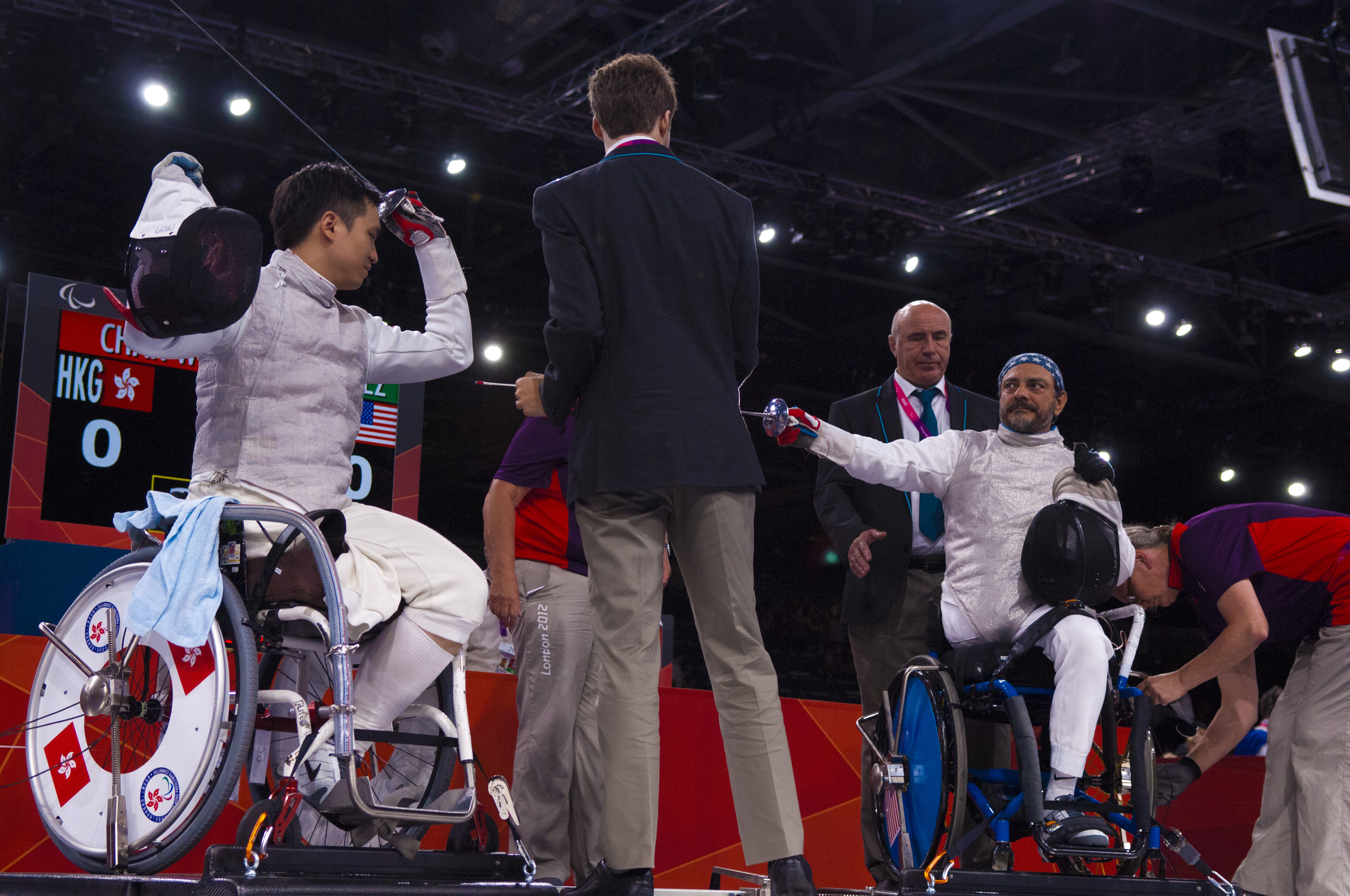 Mario Rodriguez, right, a former U.S. Air Force staff sergeant and a member of the 2012 U.S. Paralympic fencing team, prepares to enter a fencing bout with Hong Kong's Wing Kin Chan as officials measure the distance between the two athletes during the Paralympic Games at the ExCeL London exhibition and convention center in London Sept. 4, 2012. The Paralympics is a major international sporting event in which thousands of athletes, including wounded and injured U.S. Service members, participate in a variety of sporting events. (U.S. Army photo by Sgt. 1st Class Tyrone C. Marshall Jr./Released)